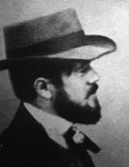 Bulgarian poet Dimcho Debelyanov in 1912